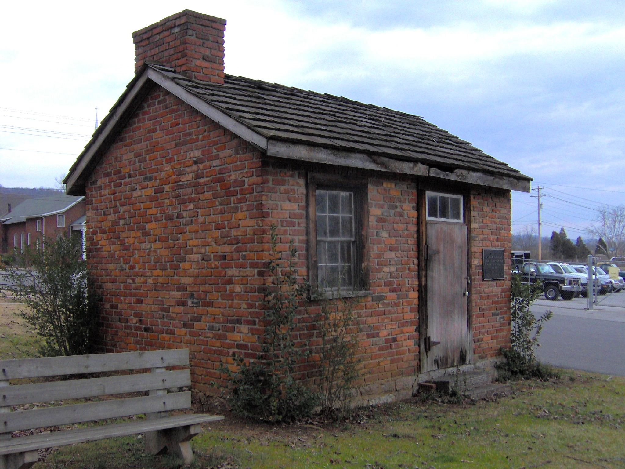 A replica of Andrew Johnson's tailor shop in Rutledge, Tennessee, in the southeastern United States. Johnson operated the tailor shop for six months in the 1820s. He eventually returned to his home base in Greeneville, where rose through the political ranks and eventually succeeded Lincoln as U.S. president. The current replica was built in 1976.